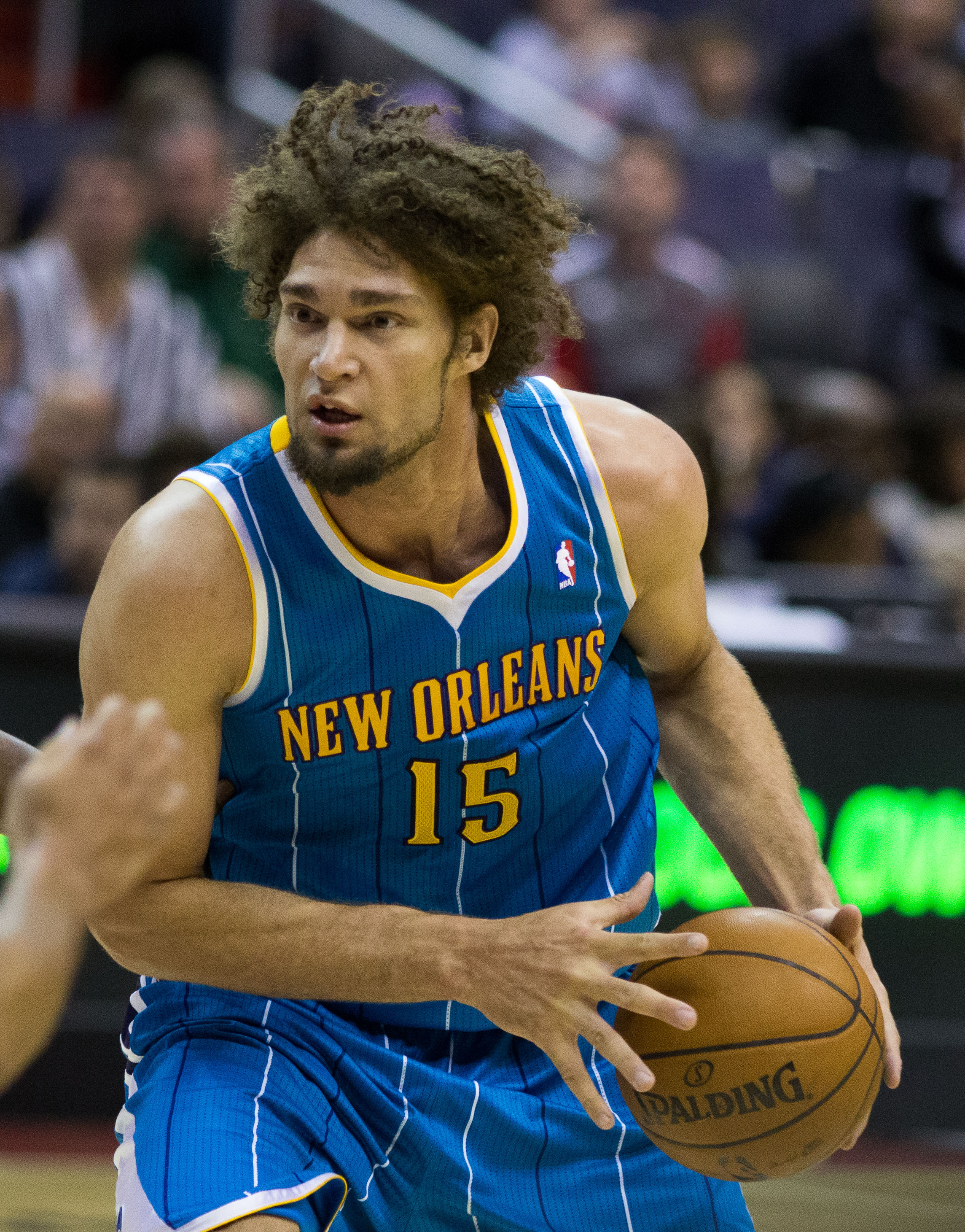 New Orleans Hornets at Washington Wizards March 15, 2013